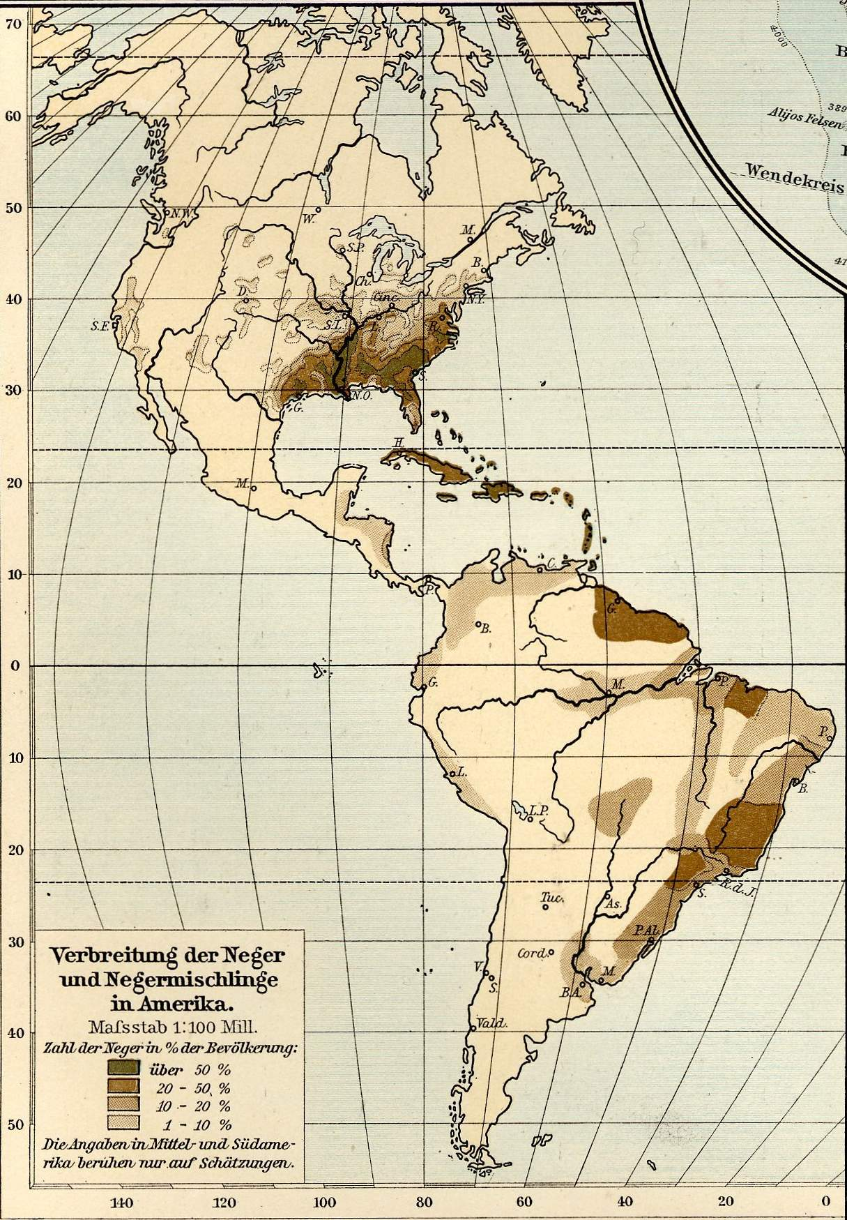 Afroamericans in 1901.